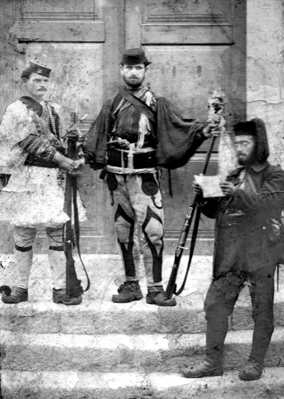 Trayko Zoykata, Kosta Kosturski and Krastyo Germov.